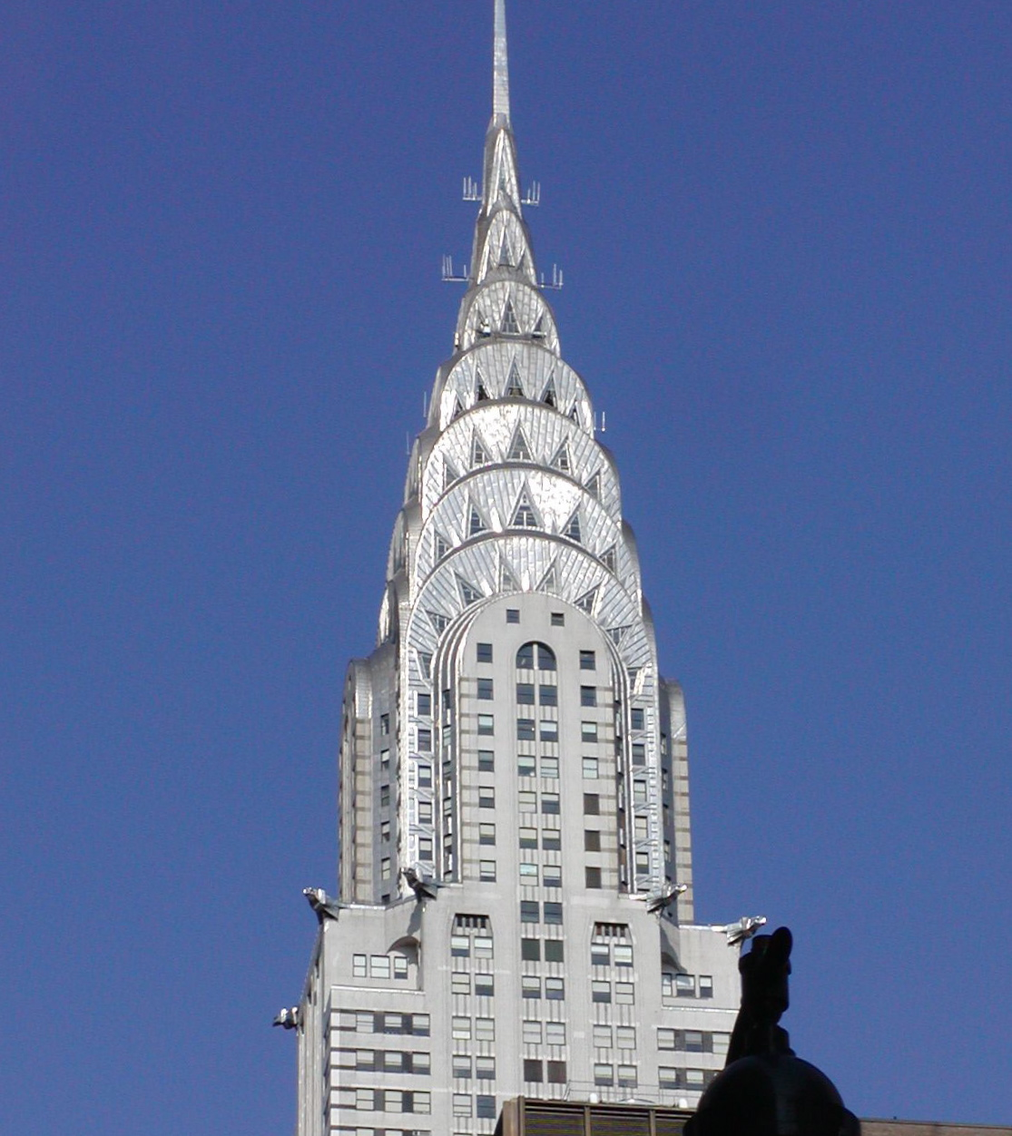 The top floors of the Chrysler Building seen from the east on 42nd Street in morning light.